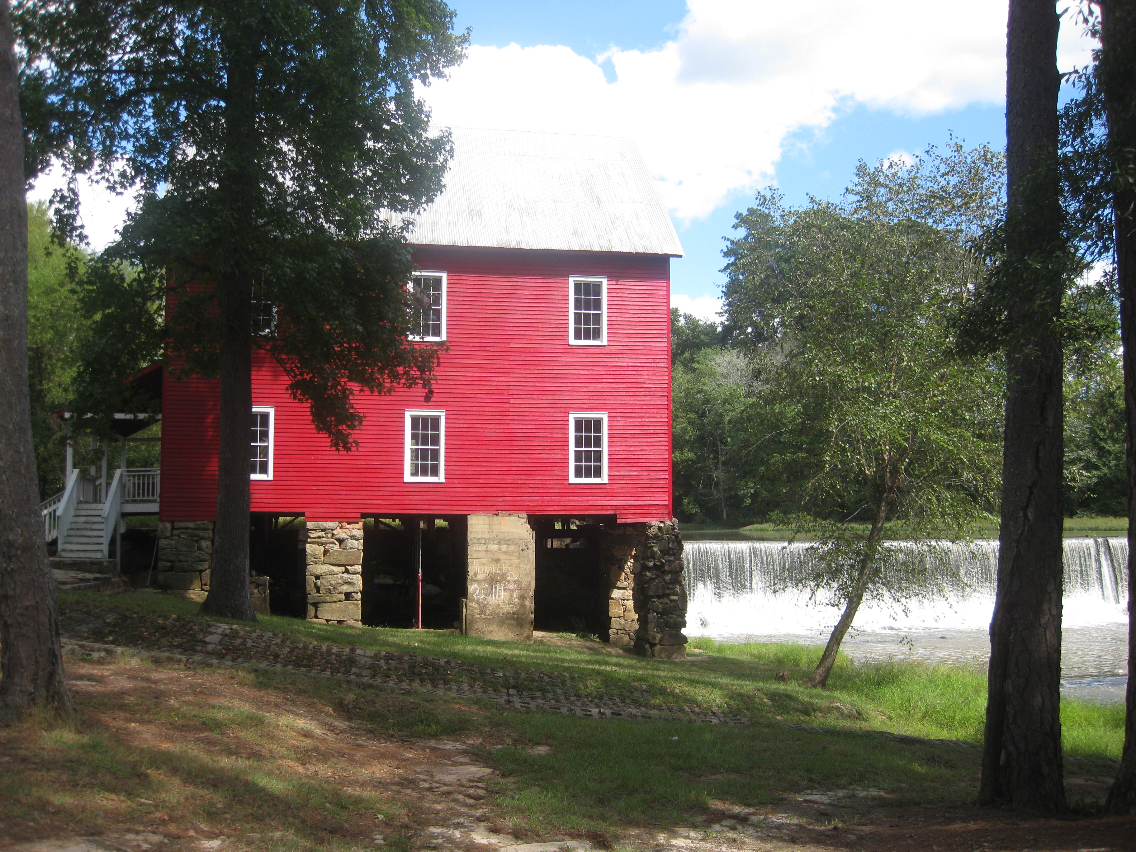 The current structure, built in 1907